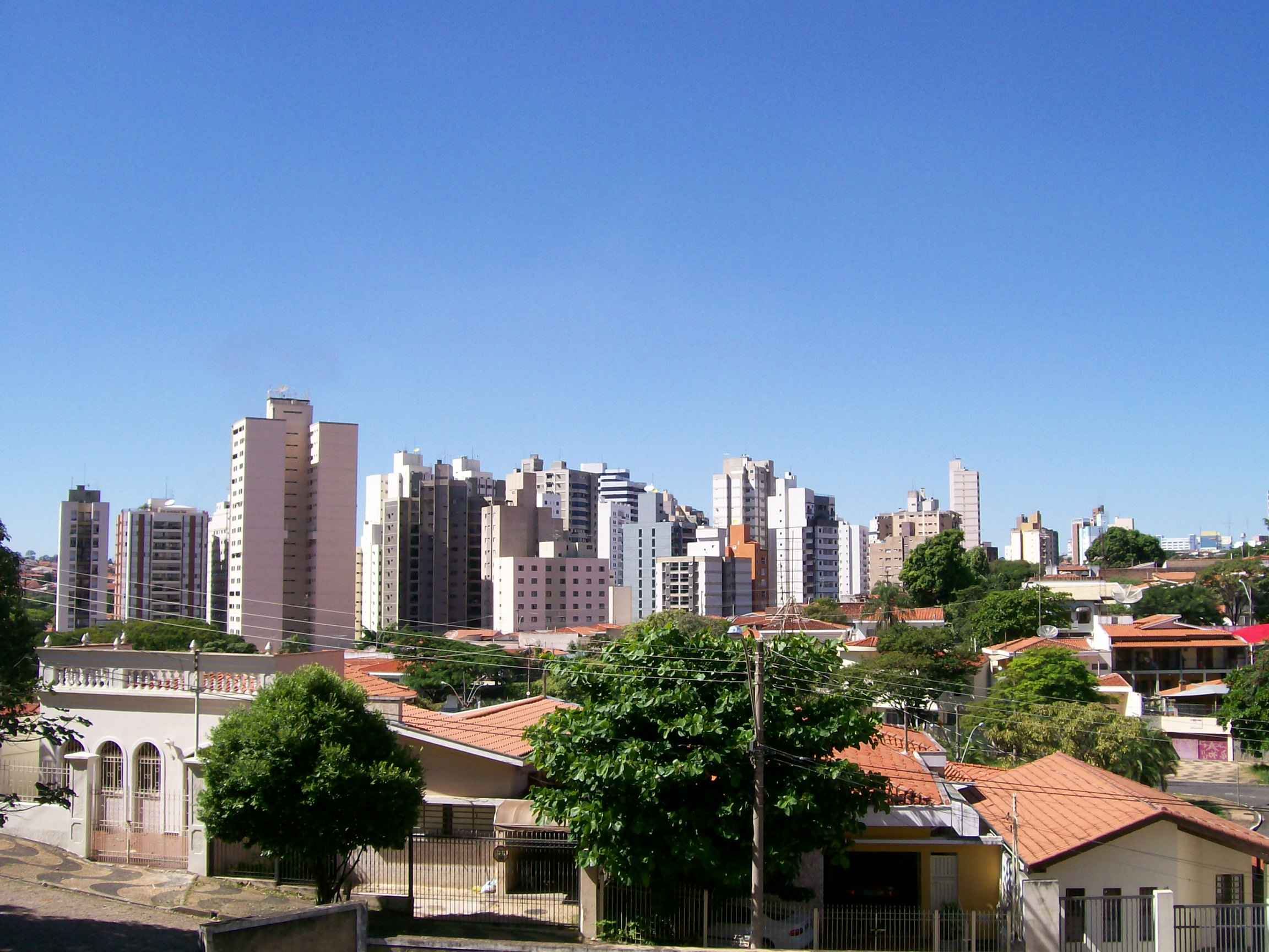 Jardim Proença's borough skyline as seen from Proença Street.